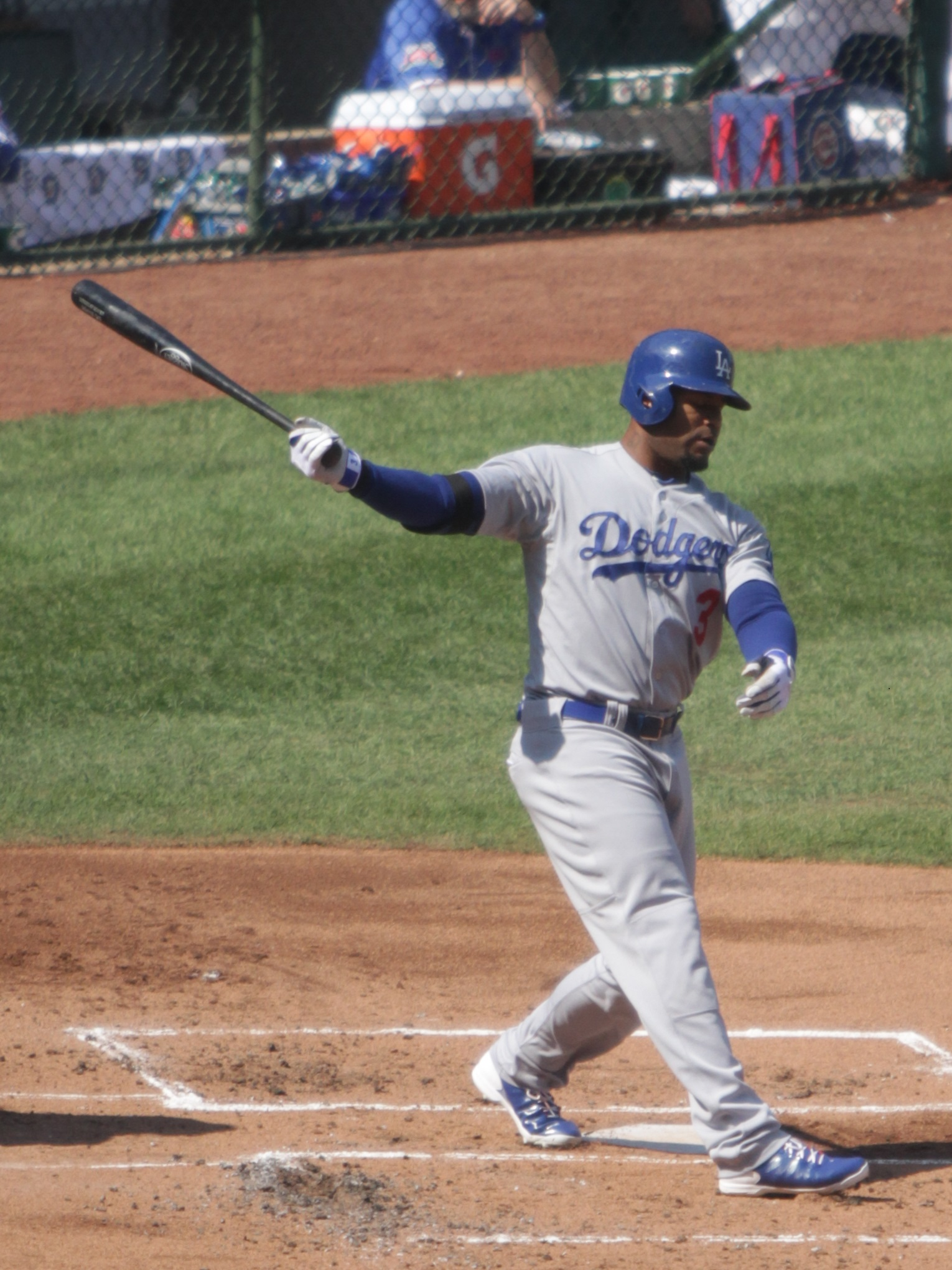 Carl Crawford for the 2014 Los Angeles Dodgers against the 2014 Chicago Cubs at Wrigley Field.